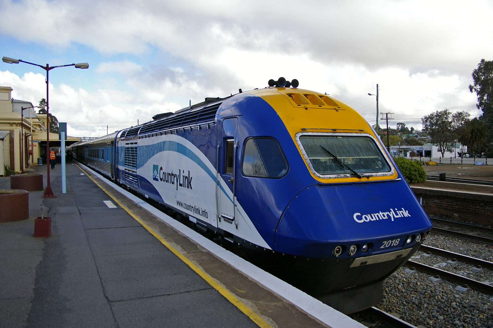 CountryLink XPT 2018 at Junee Railway Station.